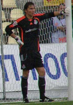 Marek Čech as a player of FC Lokomotiv Moscow